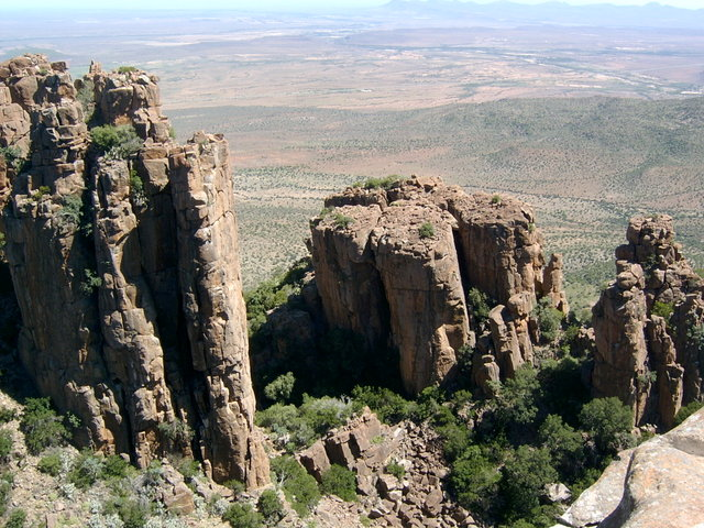 A view of Valley of Desolation in Camdeboo National Park near Graaff-Reinet, Eastern Cape, South Africa, with column- or pillar-like erosional remnants of a Jurassic Dolerite intrusion in the foreground, eroding out of Permian continental sedimentary rocks of the Beaufort Group.